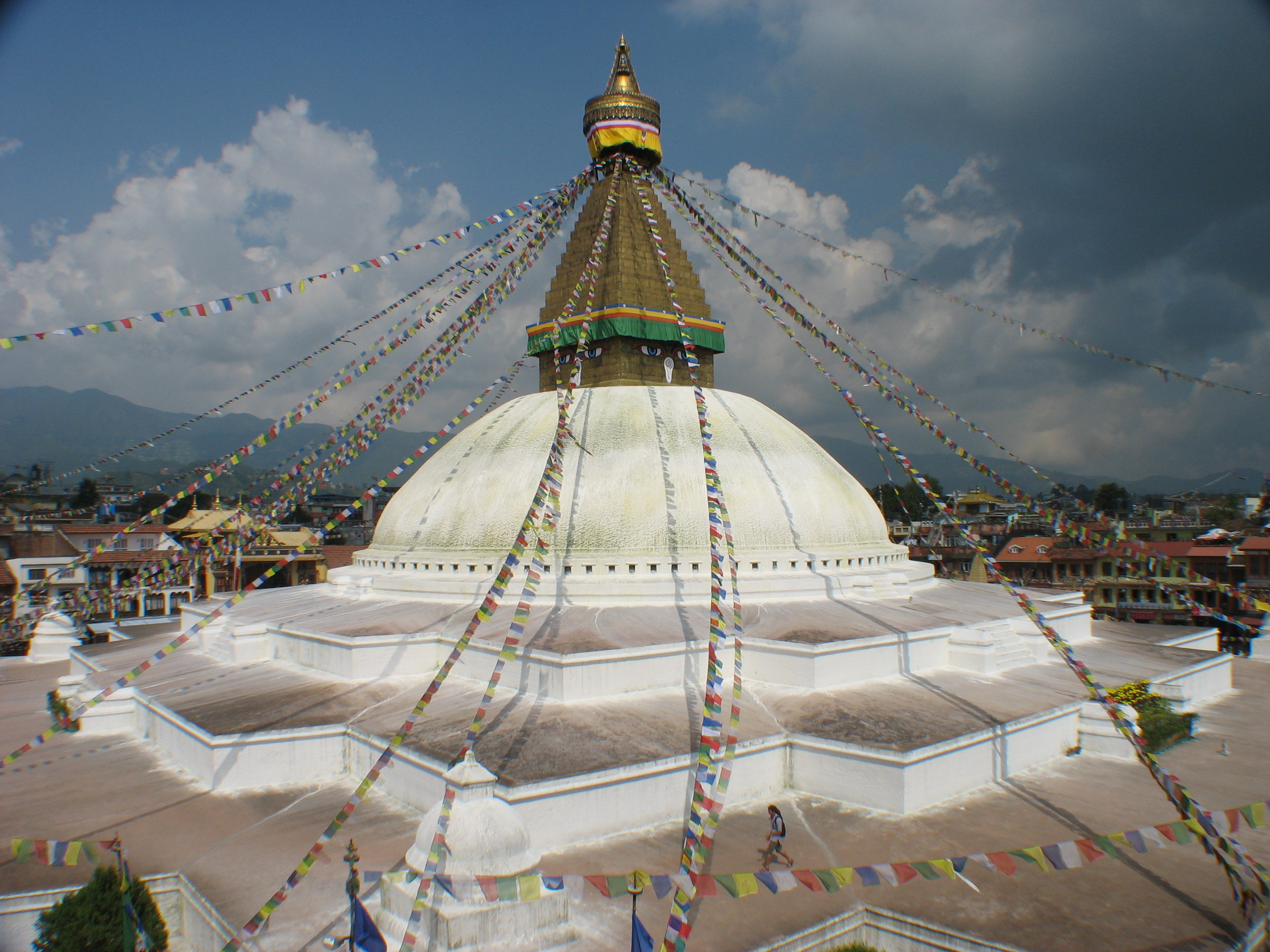 Stupa in Bodnath, Nepal